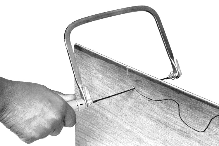 b/w photograph of a coping saw